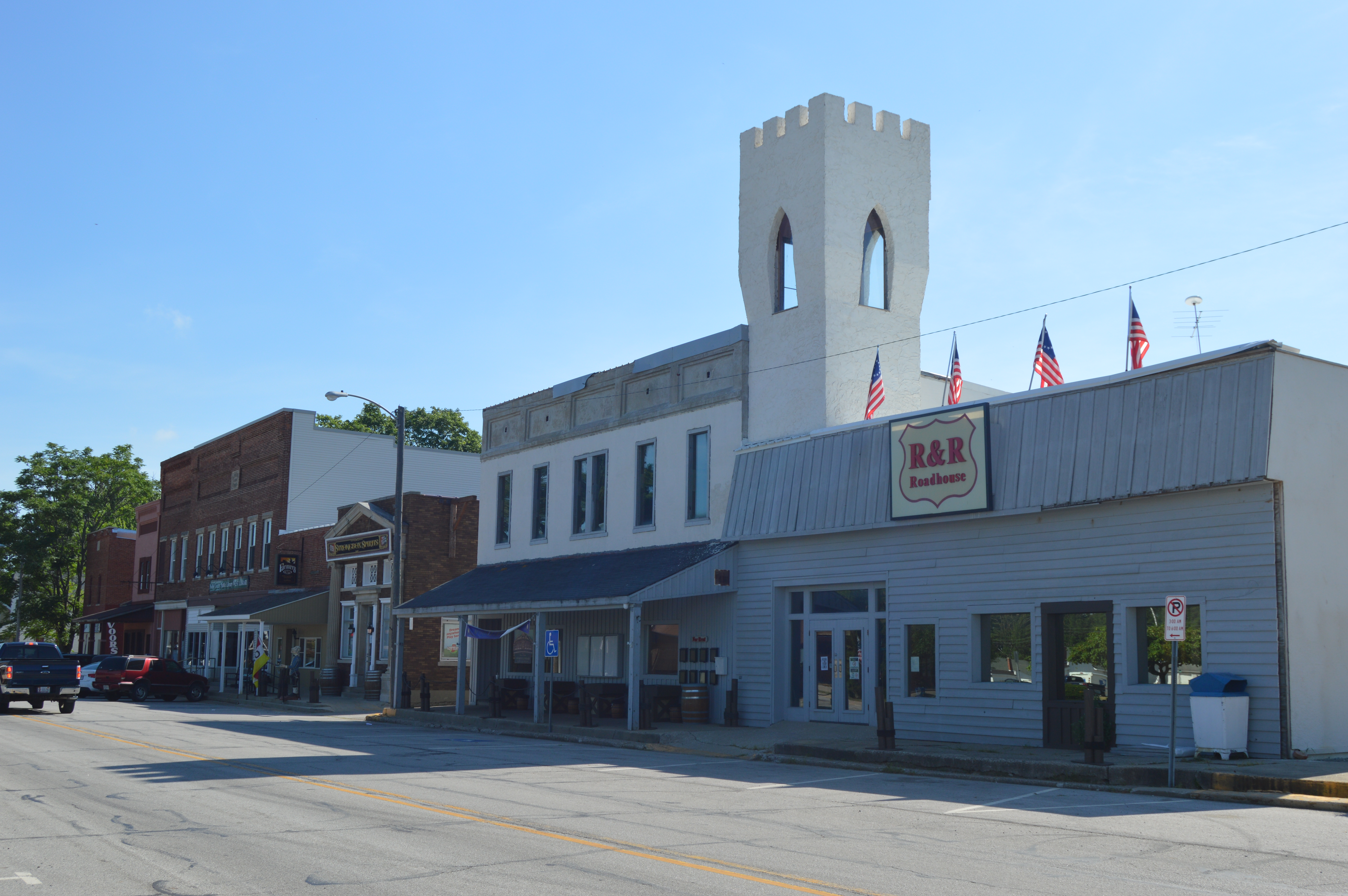 Buildings on the eastern side of Jefferson Street (State Road 5) just north of Orange Street in Cromwell, Indiana, United States. This block is part of the Cromwell Historic District, a historic district that is listed on the National Register of Historic Places.